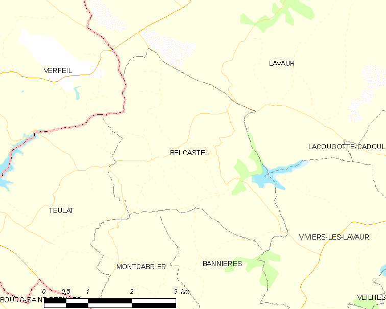 Map of French municipality Belcastel